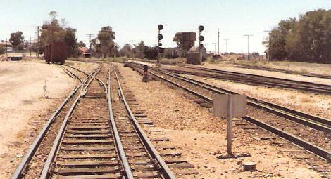 In 1970, the line from Port Pirie to Broken Hill was converted to "standard gauge", resulting in all three gauges used in Australia meeting in Gladstone railway yards. At the time, there were only three places on the planet where this happened. In the late 1980s, the broad and narrow gauge lines were closed, leaving Gladstone as purely standard gauge. This photo was taken by me (User:Pdfpdf) in March 1986 using a Pentax MX with 50mm lens and 100 ASA Kodak 35mm colour film, and printed on Kodak paper. Obviously, over the 25 years between printing and scanning, the colours have faded.